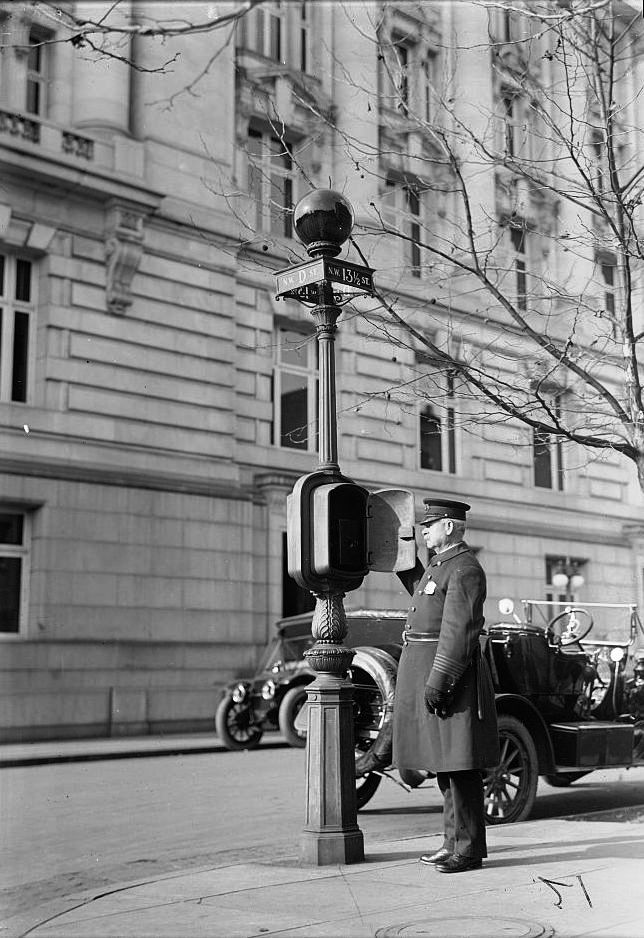 Police call box at corner of D St. and 13½ St. NW, Washington DC.